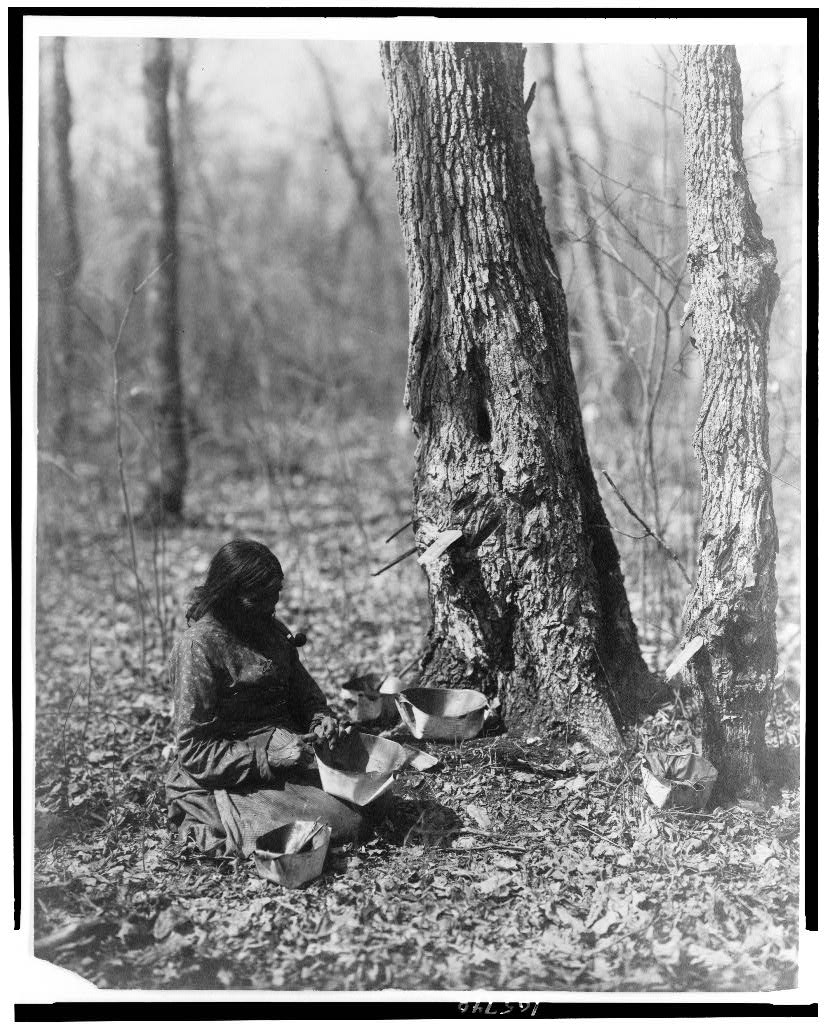 A 1908 Roland Reed photo of an Ojibwe woman tapping for maple syrup